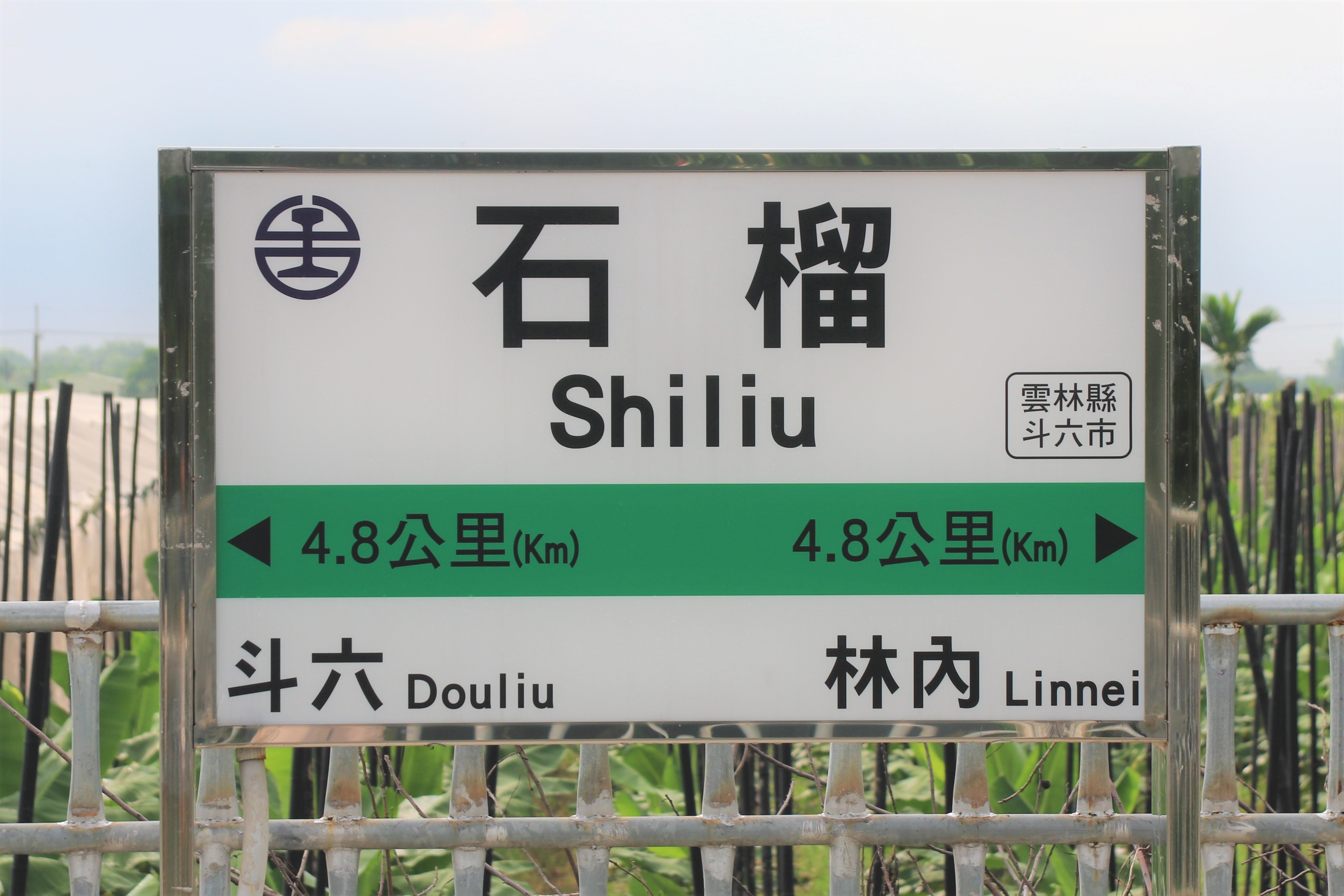 Station signage on Platform 2 of TRA Shiliu Station in Douliu City, Yunlin County. Taken from the east end of Platform 1 (southbound) facing west.